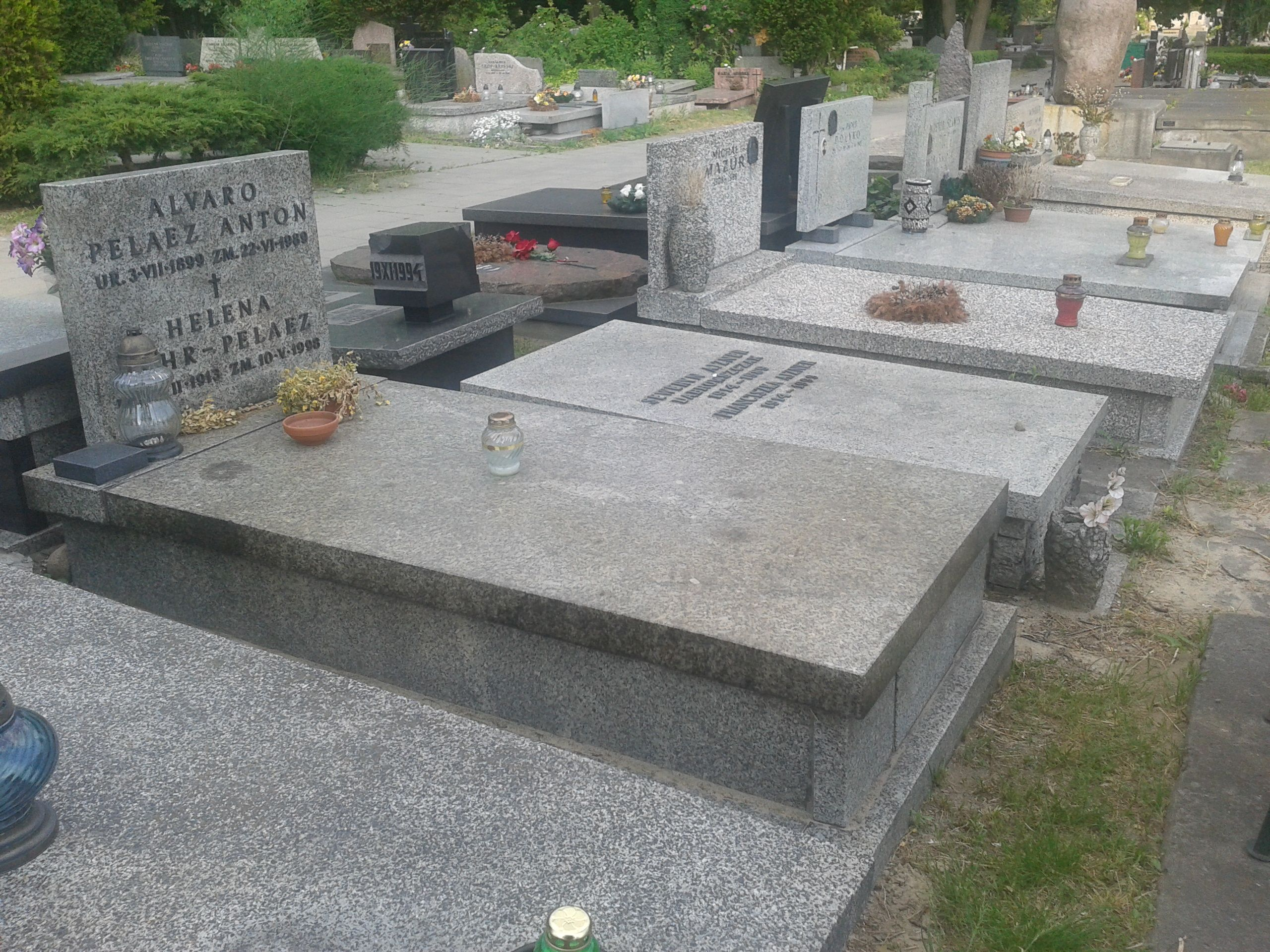 Graves of Polish volunteers who fought in XIII International Brigade for the Spanish Second Republic in the Spanish Civil War in the International Brigades. Military Cemetery in Warsaw.